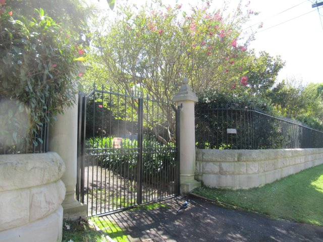 Northwood House, Northwood: Northwood House & Cottage